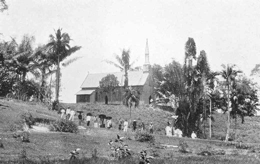 Christ Church, Lundu District, Sarawak that built in year 1855